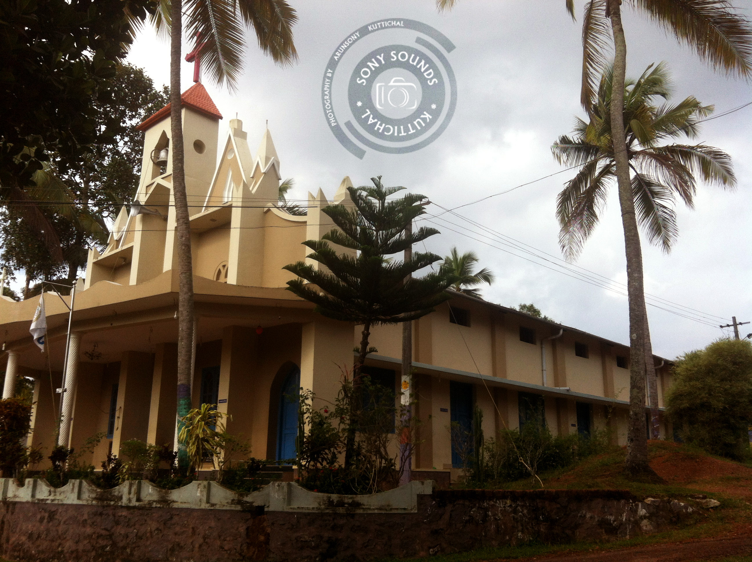 Paruthippally csi church side view